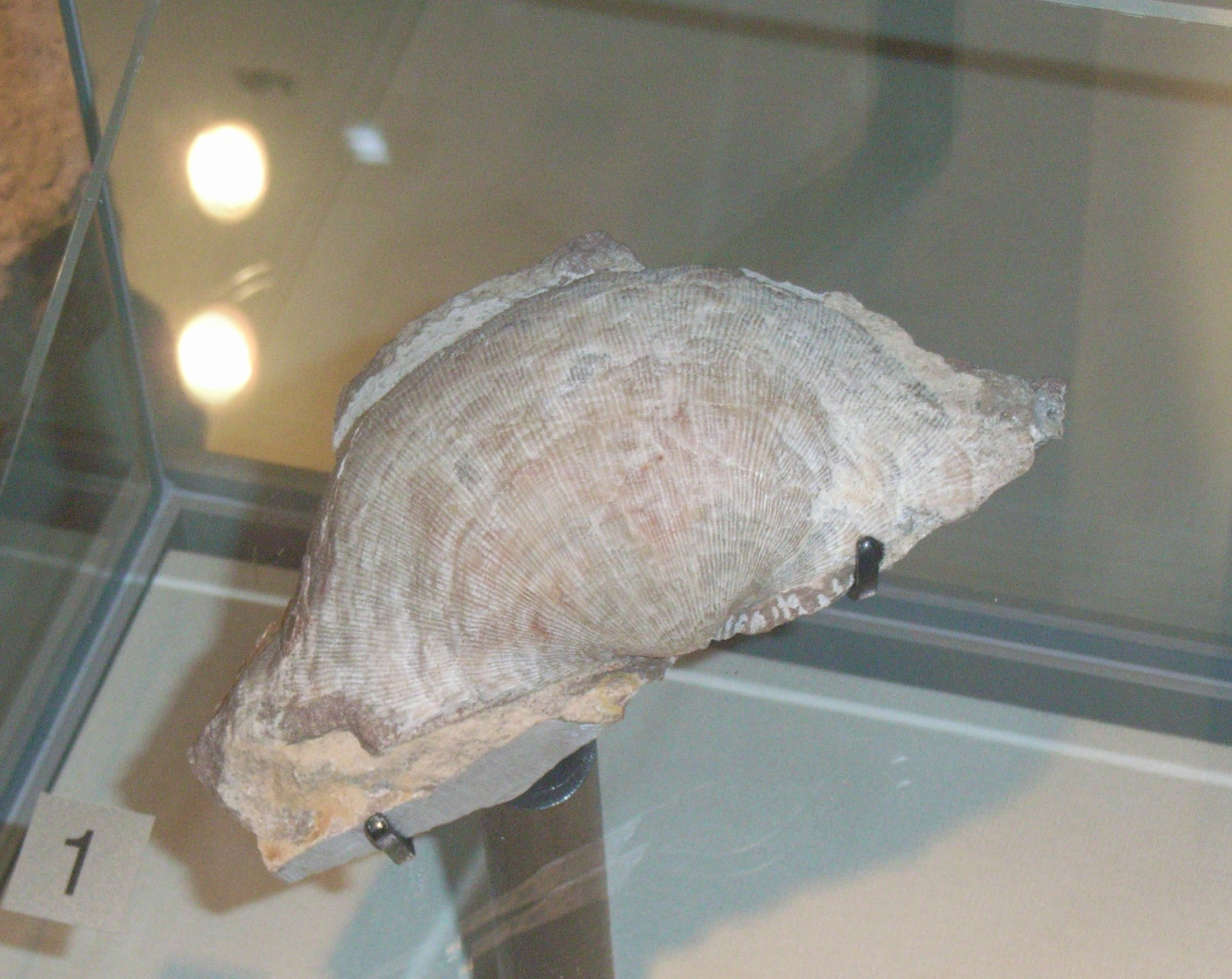 Gigantoproductus protvensis (Sarytcheva, 1928) Mississippian